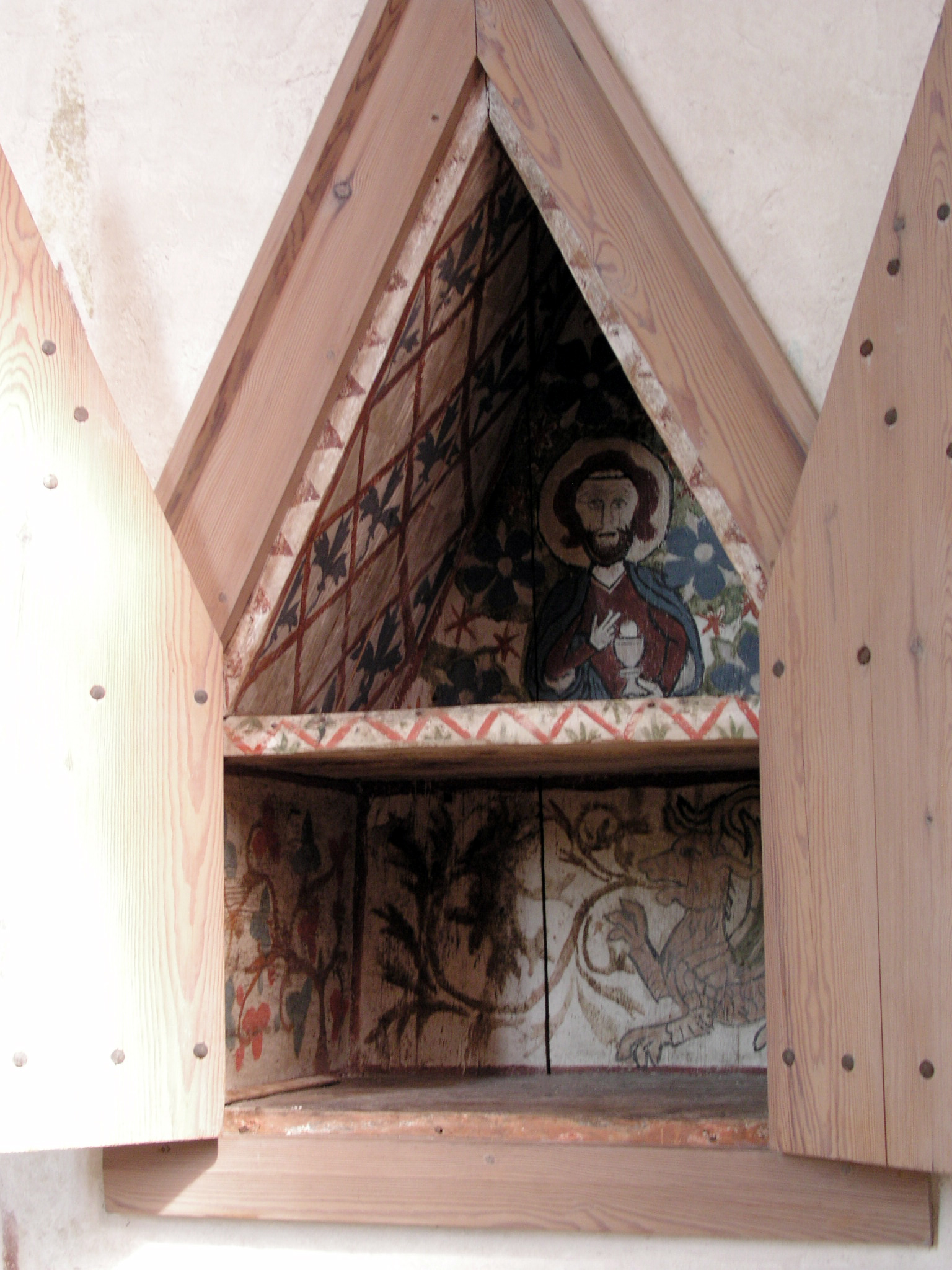 Garda (Garde) kyrka / Garda (Garde) church is situated at Garde, Gotland, Sweden